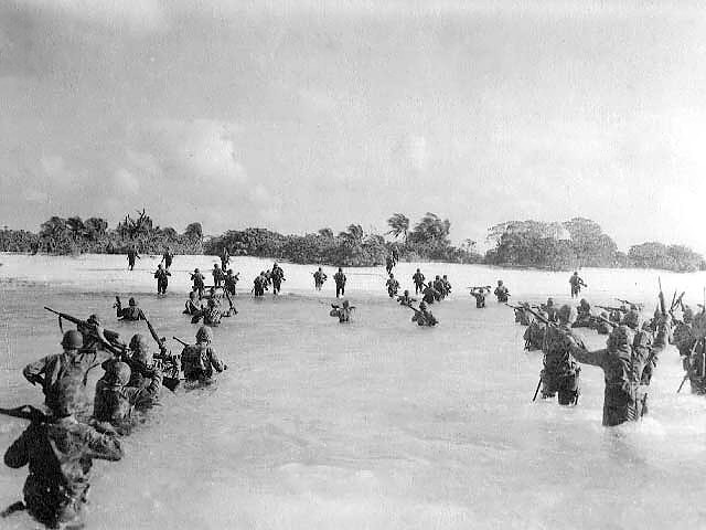 Casualties on this island were small, one killed and one wounded. This is the first wave, in fact the only wave to go ashore on this island.